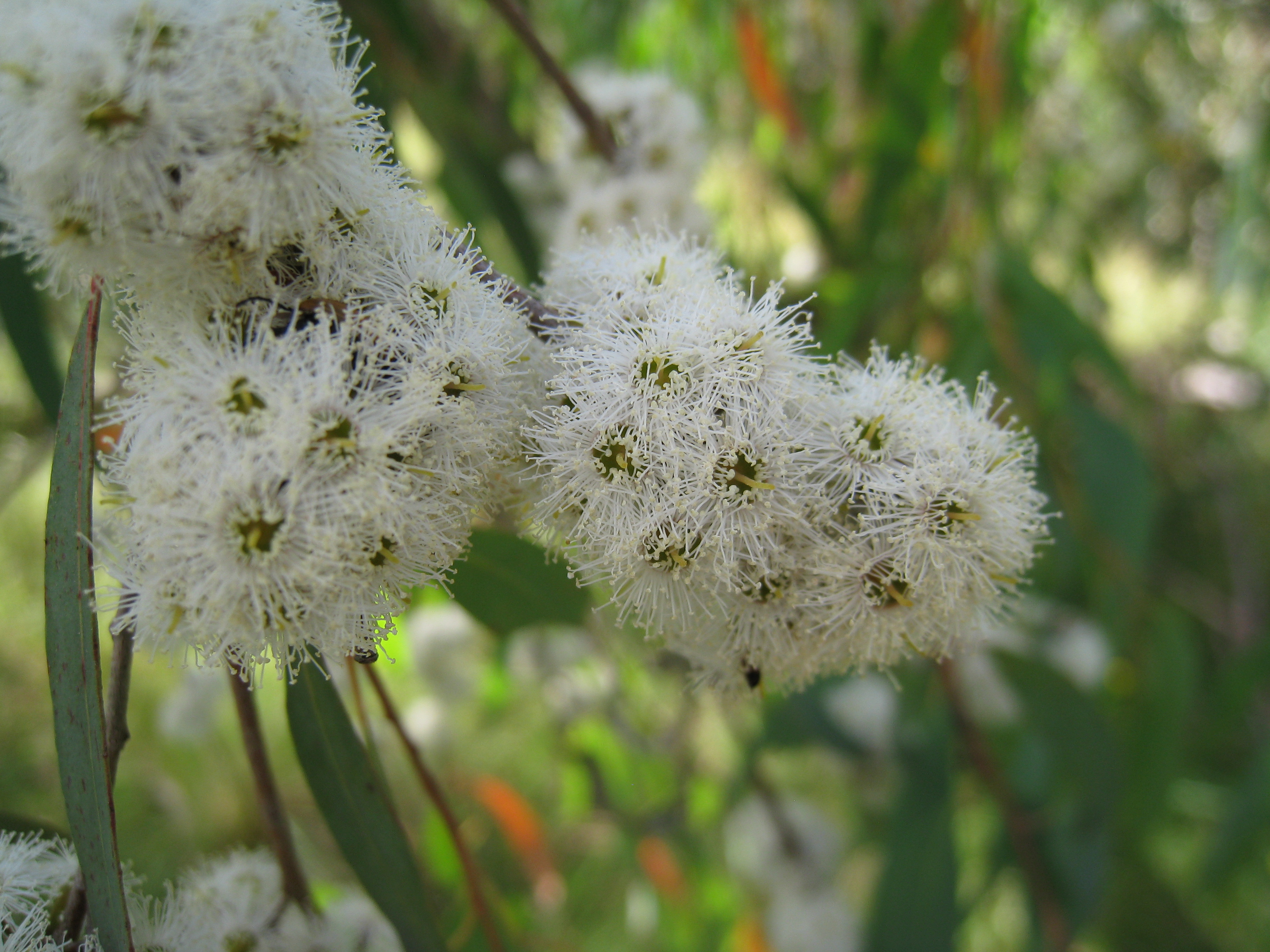 Narrow-leaved peppermint, Eucalyptus radiata. Dargo VIC Australia, January 2011.